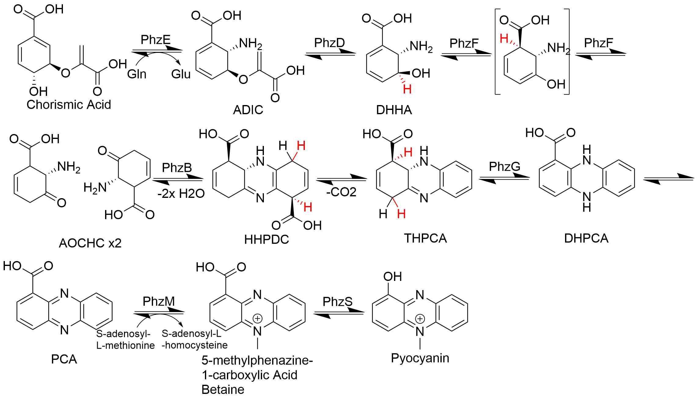 Biosynthesis of pyocyanin from Psuedomonas aeruginosa